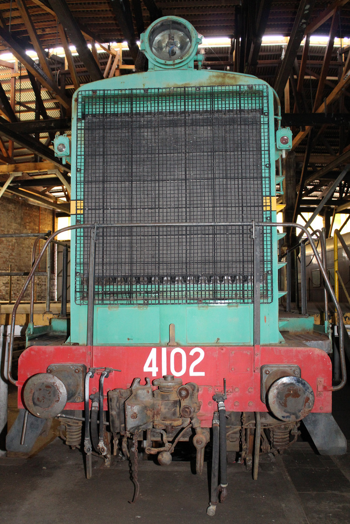 4102 in storage at Broadmeadow No.2 Roundhouse, December 2012.